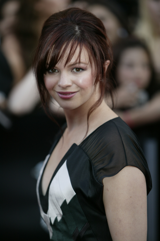 Amber Tamblyn at the 2007 MuchMusic Video Awards red carpet.